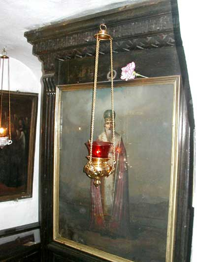 Saint Mercurius, bishop of Smolensk. Orthodox saint. Monk at Kyiv Caves Monastery, Ukraine. 13-th century.